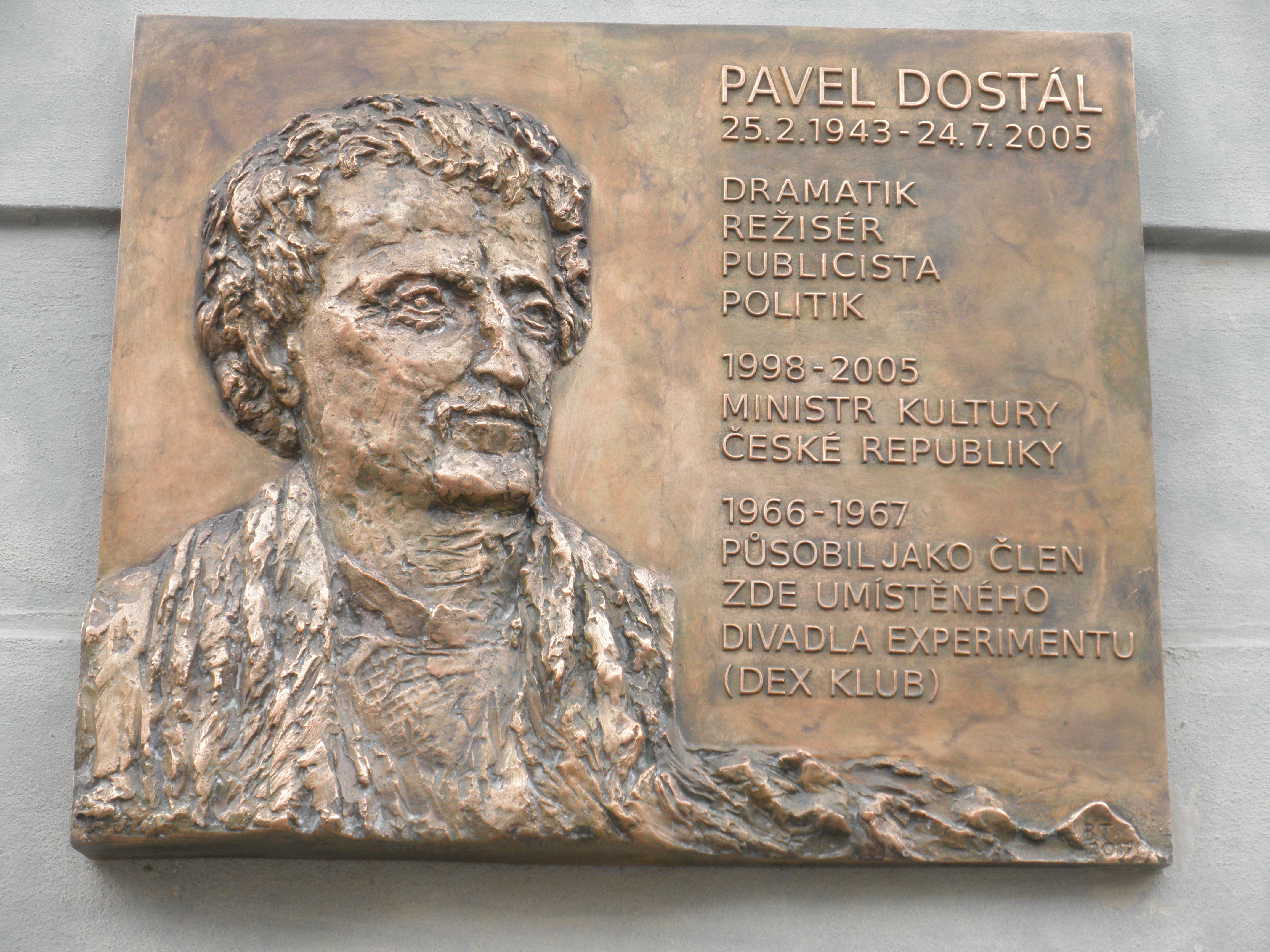 Memorial plaque of Pavel Dostál in Olomouc. The plaque was made by Bohumil Teplý in 2018.